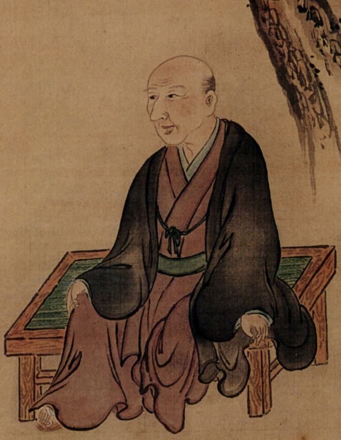 Portrait of Hattori Nankaku